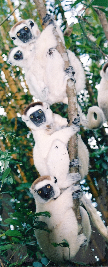 Propithecus verreauxi